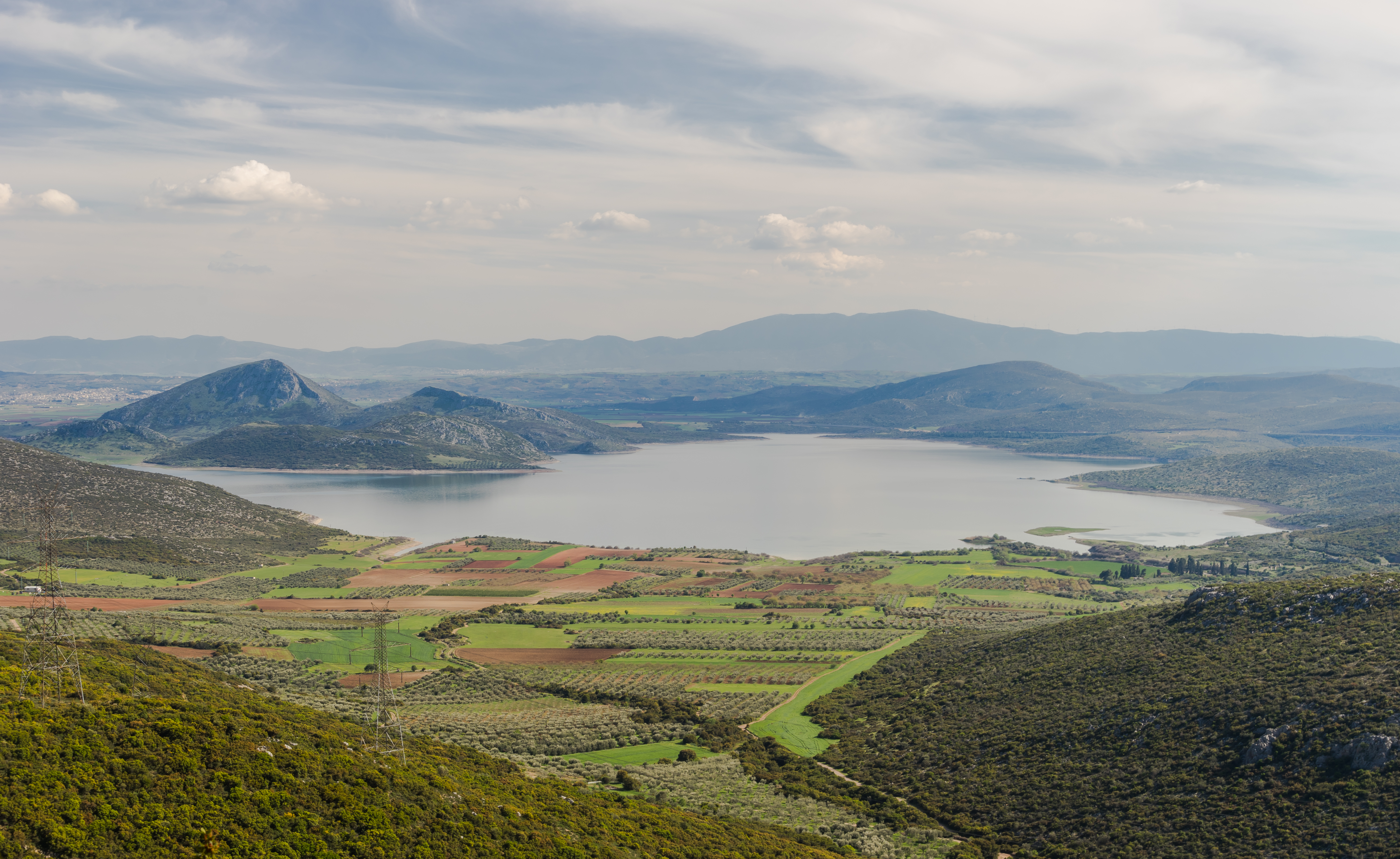 View of Illiki lake, near Thiva, Central Greece.